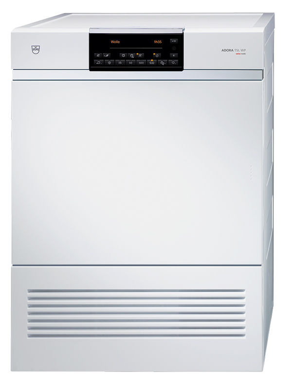 Clothes dryer with heat pump